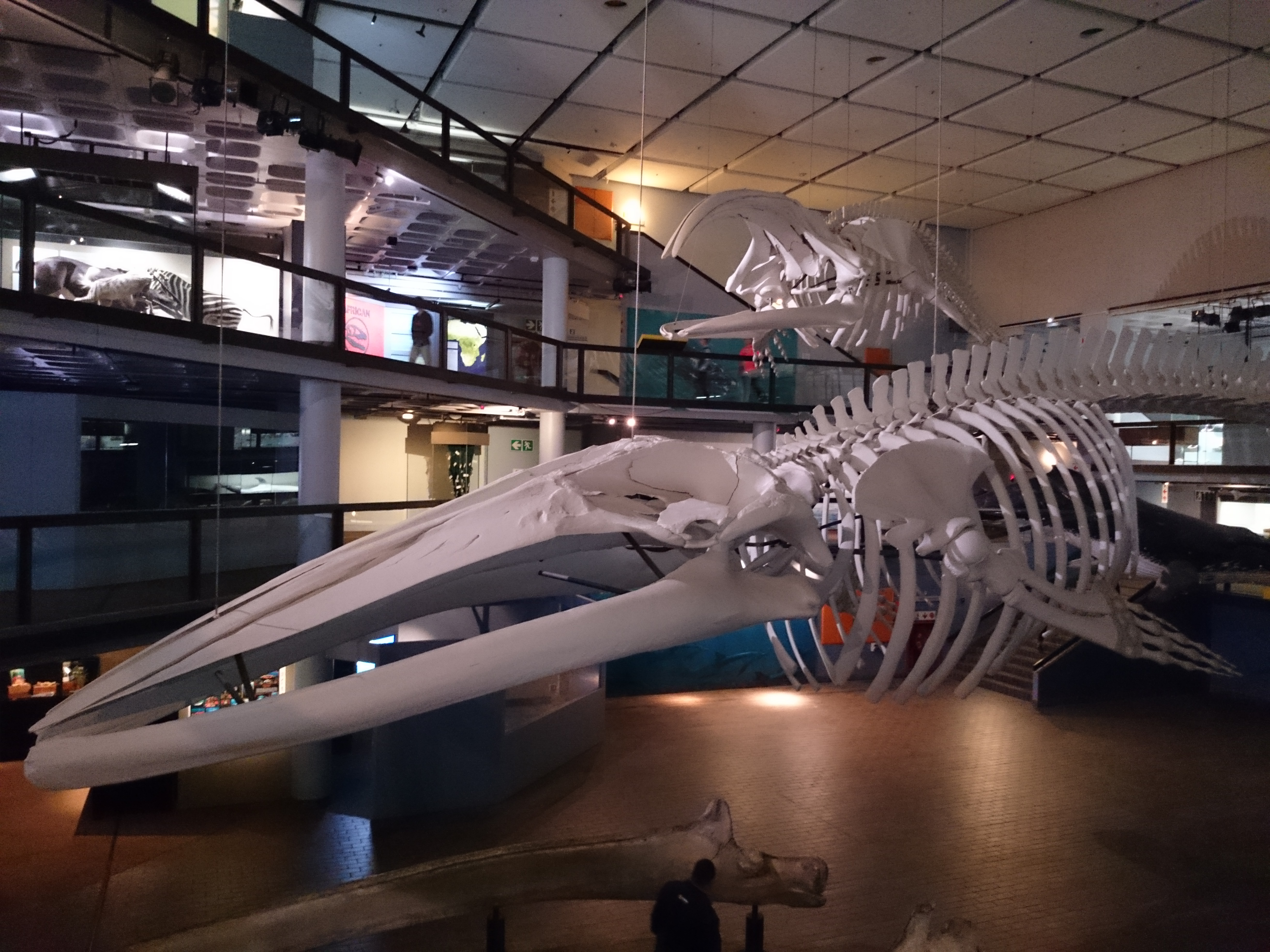 BLUE WHALE These are the largest of all whales. They can grow to a length of 31 metres and can weigh 180 000 kg. Blue whales feed almost exclusively on krill (small shrimps) that they filter from the sea, using the baleen plates in their jaws. the summer feeding season an adult blue whale may consume as much as 4000 kg of kill per day. over 300 000 blue whales were killed in the Southern Ocean between 1909 and 1905, and the population is now severely depleted. It may take as much as a century before the blue whales recover to near their original numbers.